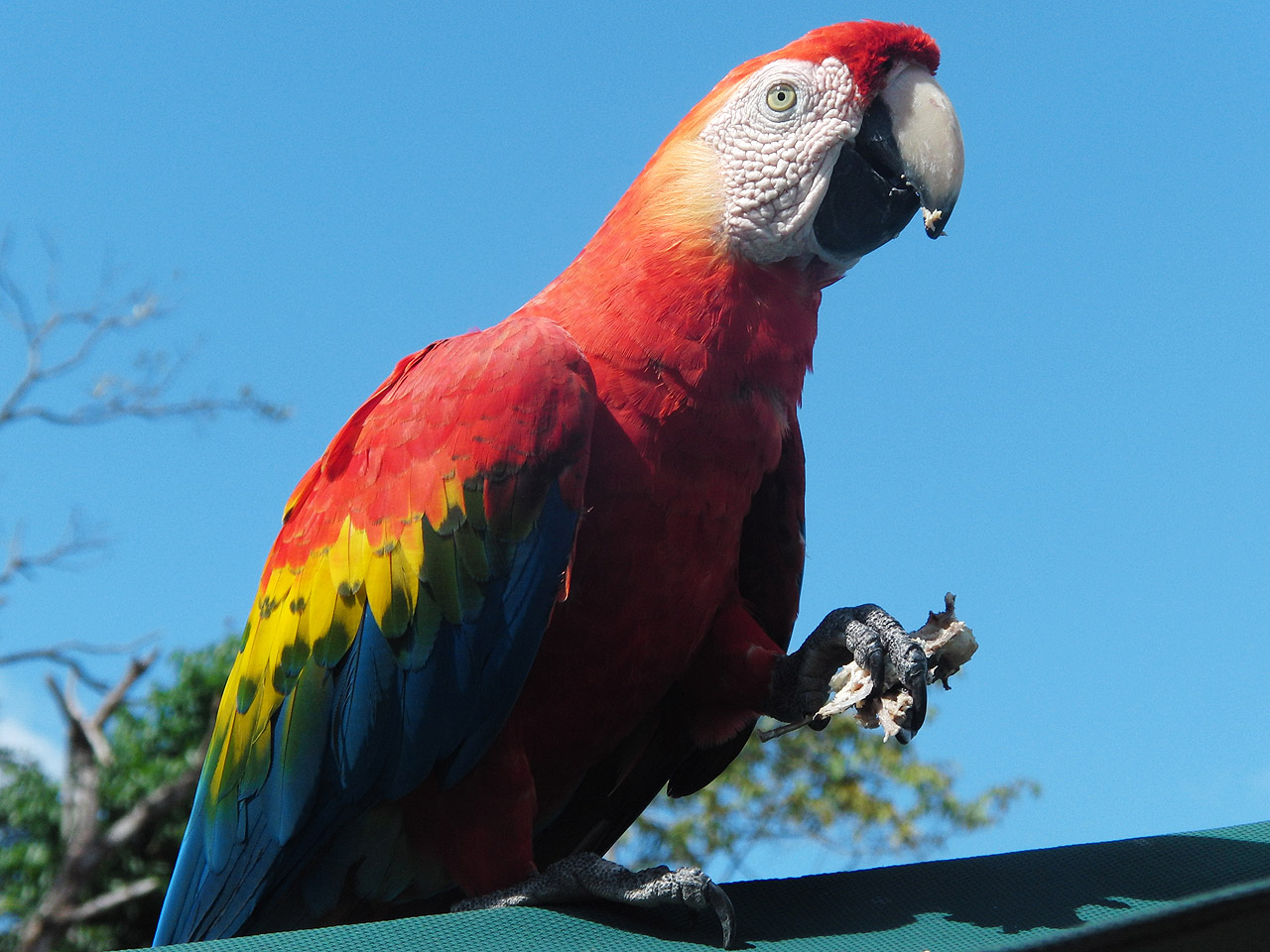 Shot in Venezuela at the National park of Canaima